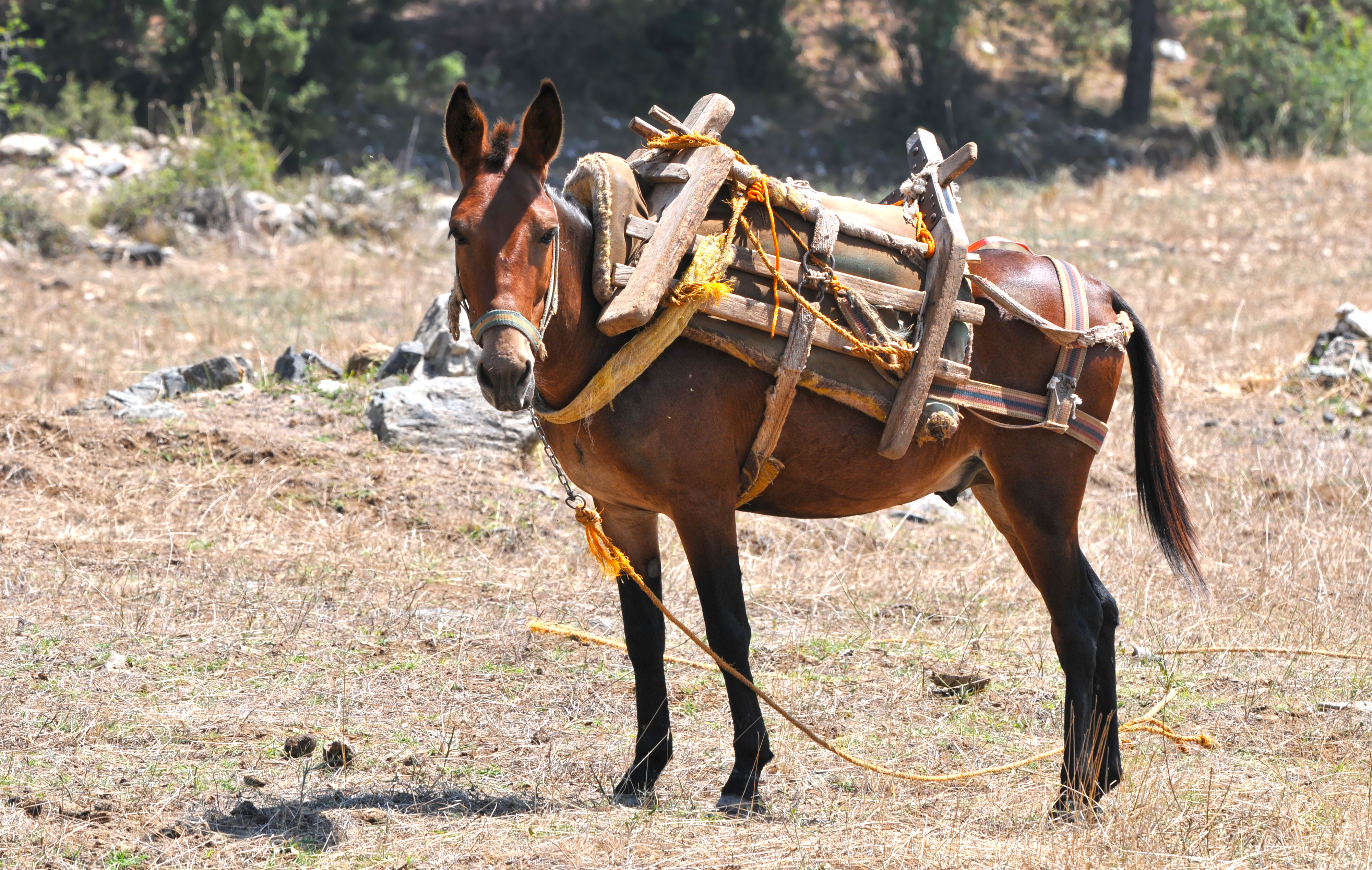 A mule (Equus asinus ♂ x Equus caballus ♀). Zeybekler, Mezitli - Mersin, TR.